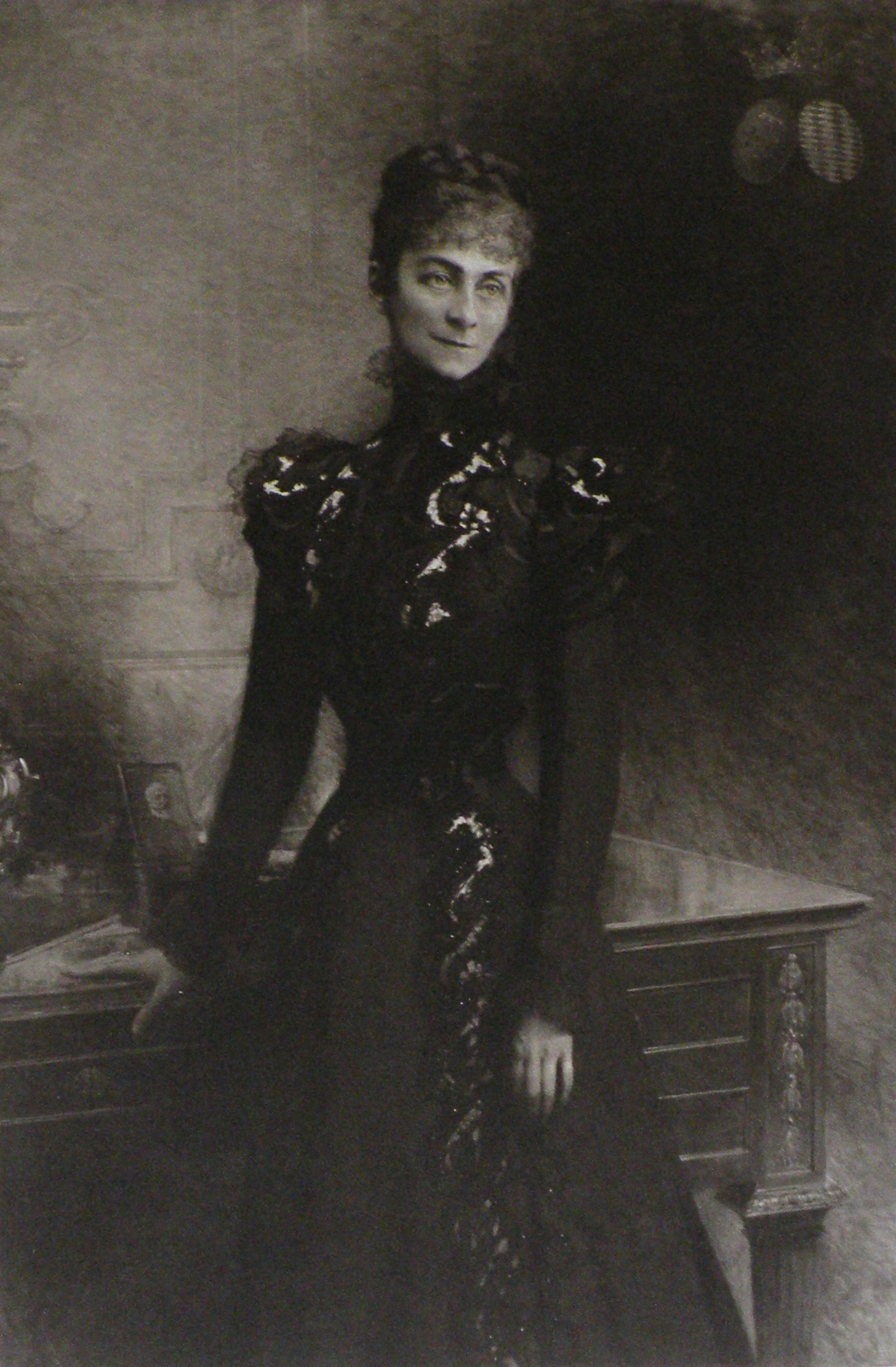 Son altesse royale la duchesse d'Alençon. Oil painting by Aimé-Nicolas Morot. Gravure (Plate 34) published in Aimé Nicolas Morot and Charles Moreau-Vauthier, 1906. L'oeuvre de Aimé Morot: membre de l'Académie des Beaux-Arts. Librairie Hachette et Cie., Paris. 7 p., 60 gravures, in folio.